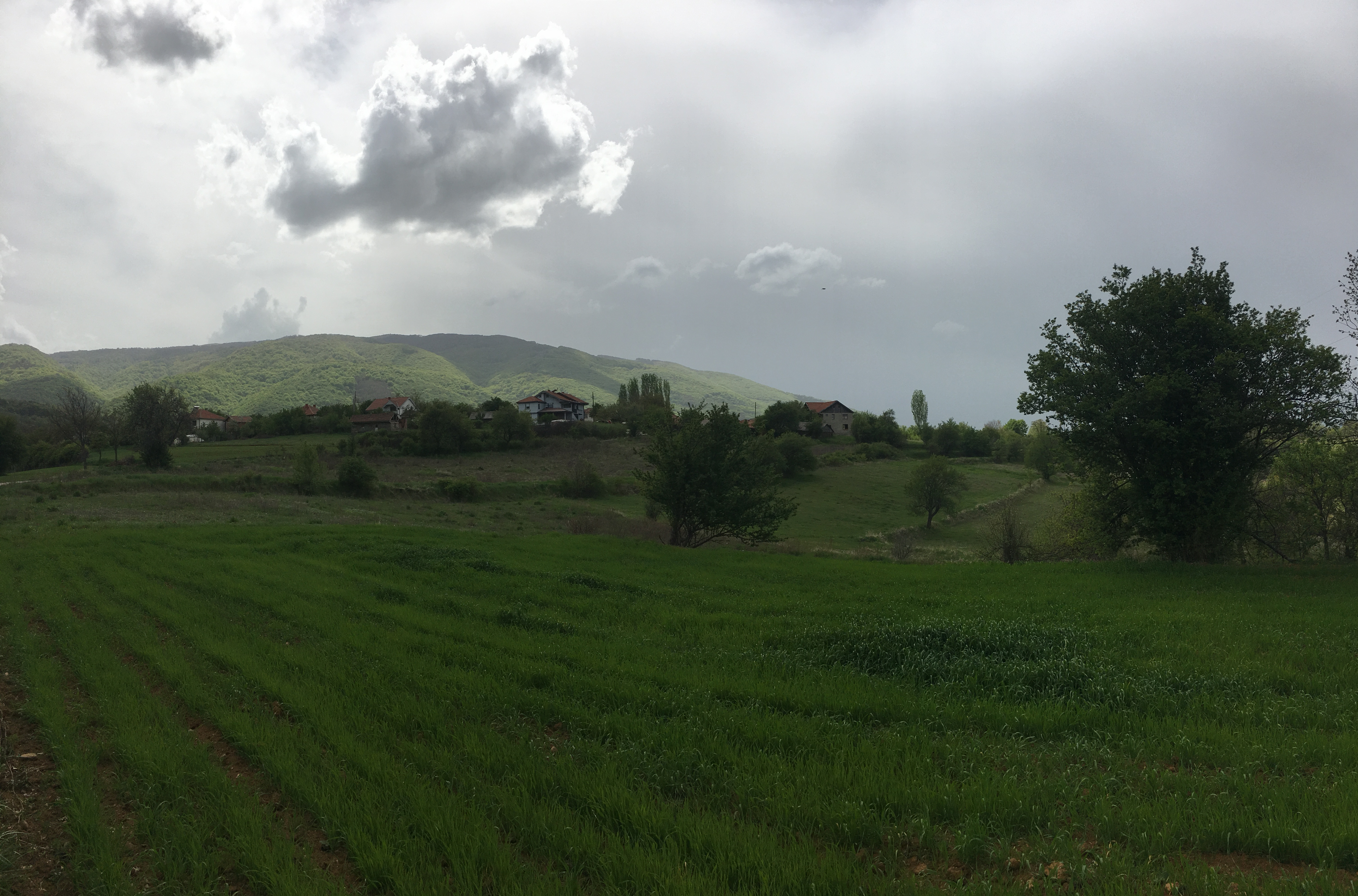 A view of the village of Moždivnjak